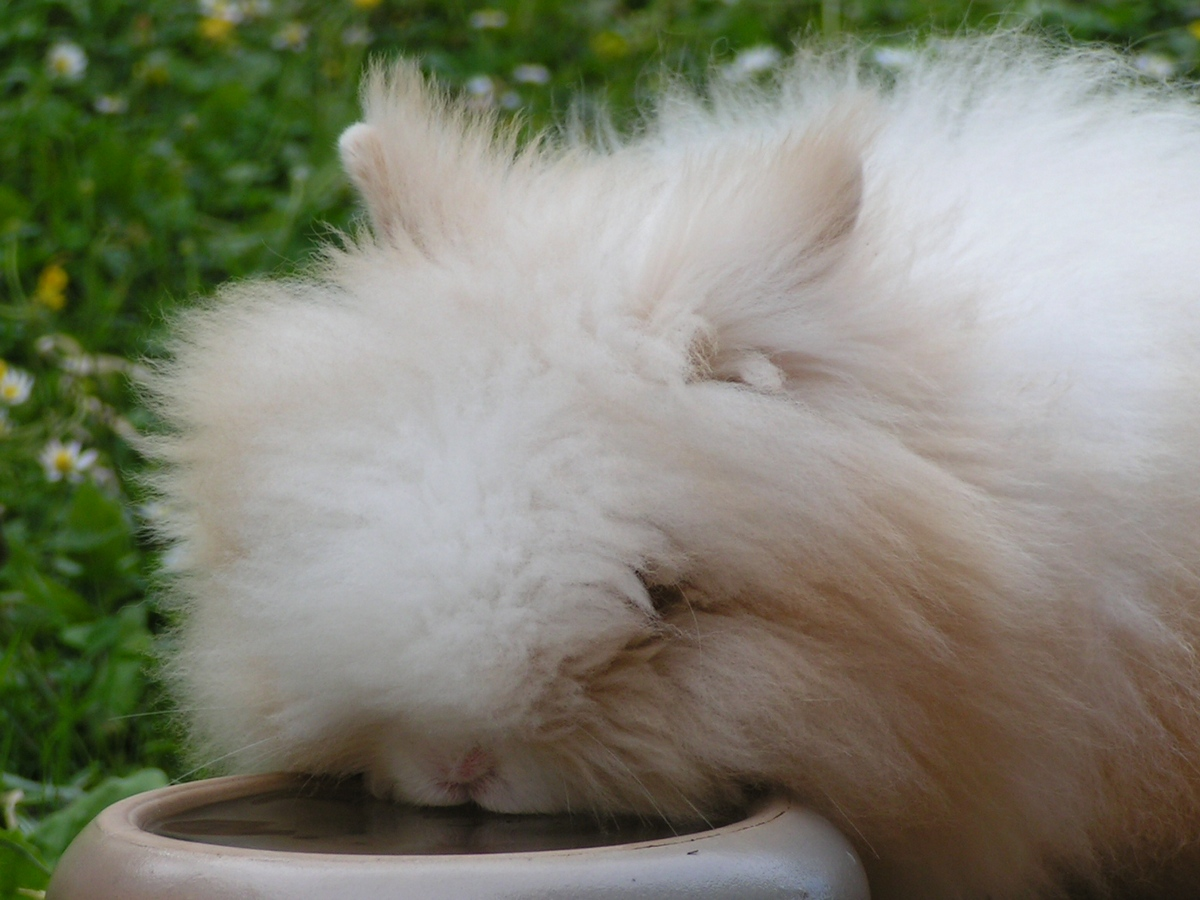 Water cup